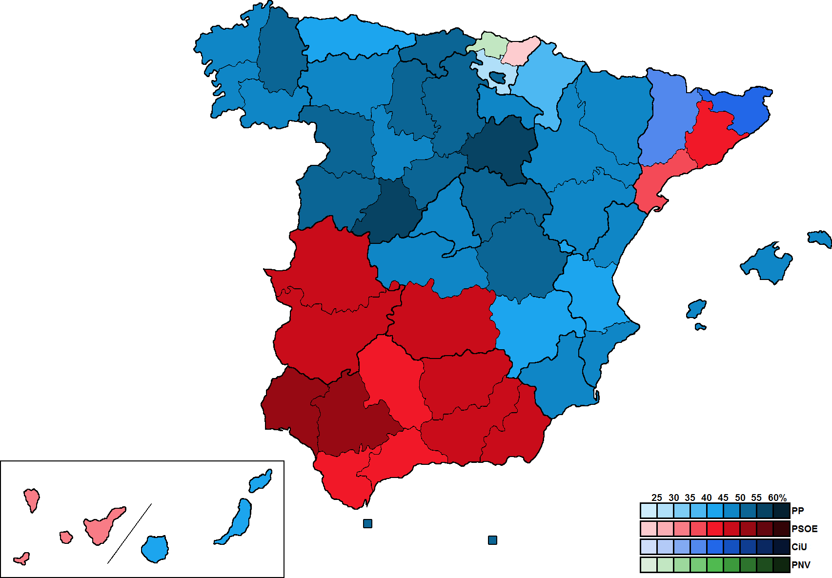 Provincial results for the 1996 Spanish general election.